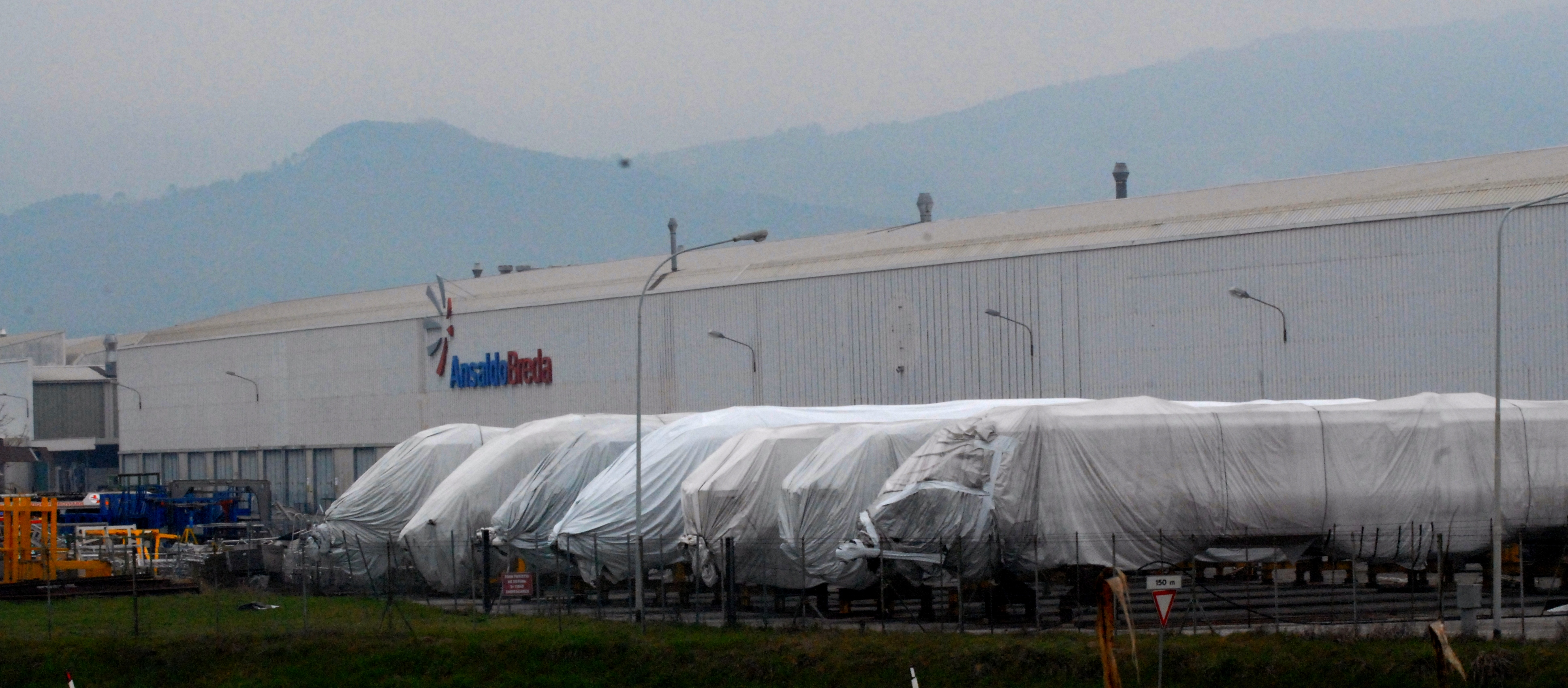 Photos from the AnsaldoBreda factory in Pistoia, Italy. Mothballed rolling stock in the external yard. Most of the trains are IC4 trainsets waiting to be delivered to DSB after the solving of the current technical problems